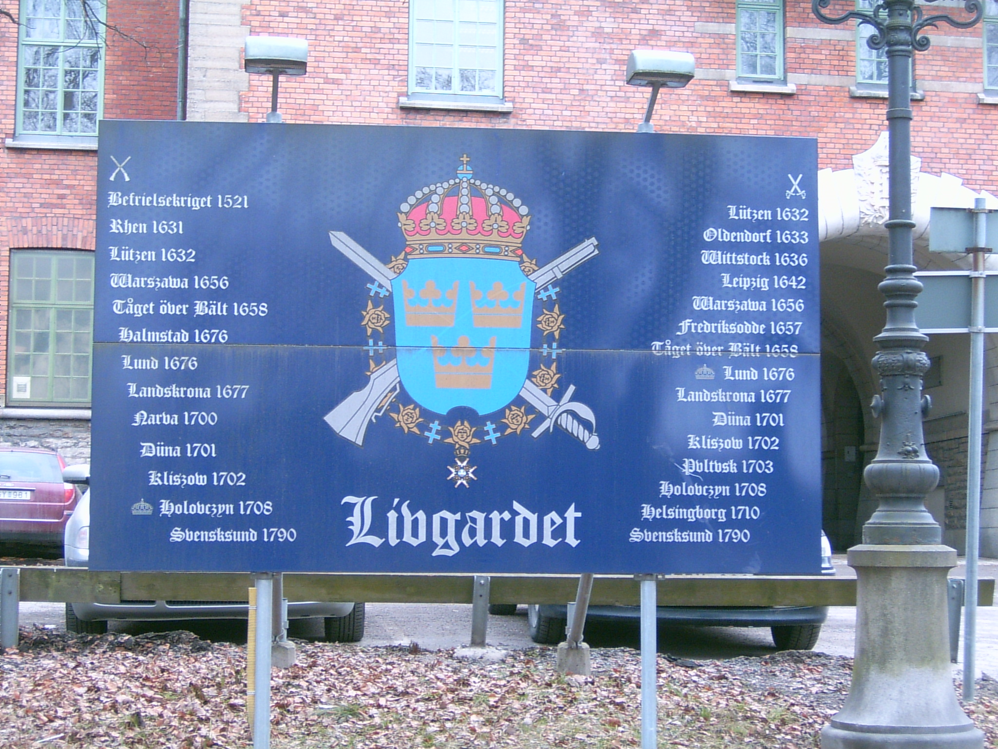 Sign with Livgardet's coat of arms and victory names at Lidingövägen in Stockholm.